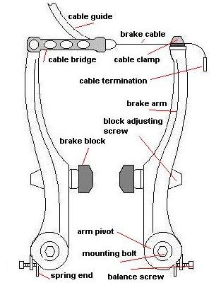 Drawing of V-Brakes